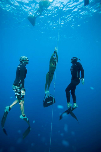 Freediving CWF Kate Middleton from New Zeland.